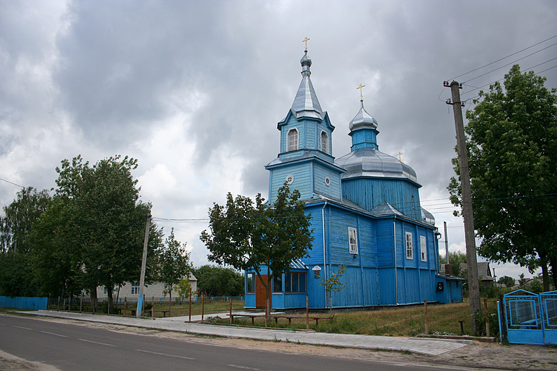 Orthodox Nativity of the Theotokos church